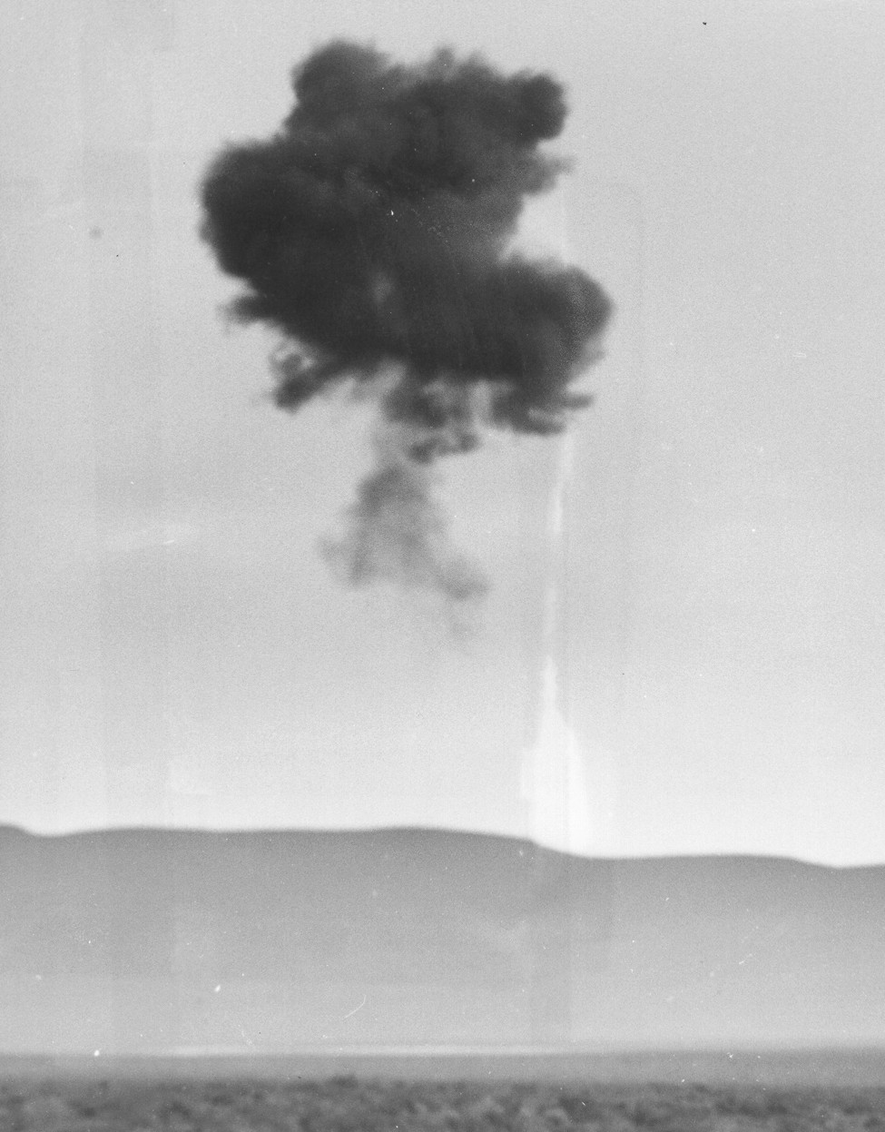 PLUMBBOB/LASSSEN - LAS VEGAS, NV -- Atomic cloud resulting from detonation of the first atomic device to be fired from a captive balloon is shown 5 seconds after detonation. Shot was fired from a height of 500 feet 40 minutes before dawn, at 4:45 a.m. in Yucca Flat. Fallout from the test, announced as “well below nominal” in yield, was recorded only in the immediate test area. Helium-filled balloon was 67 feet in diameter, held in place by four steel cables, winches for which are remotely controlled. Photo was taken from aircraft 5 ½ miles from Ground Zero, with ½ second exposure at F-8.